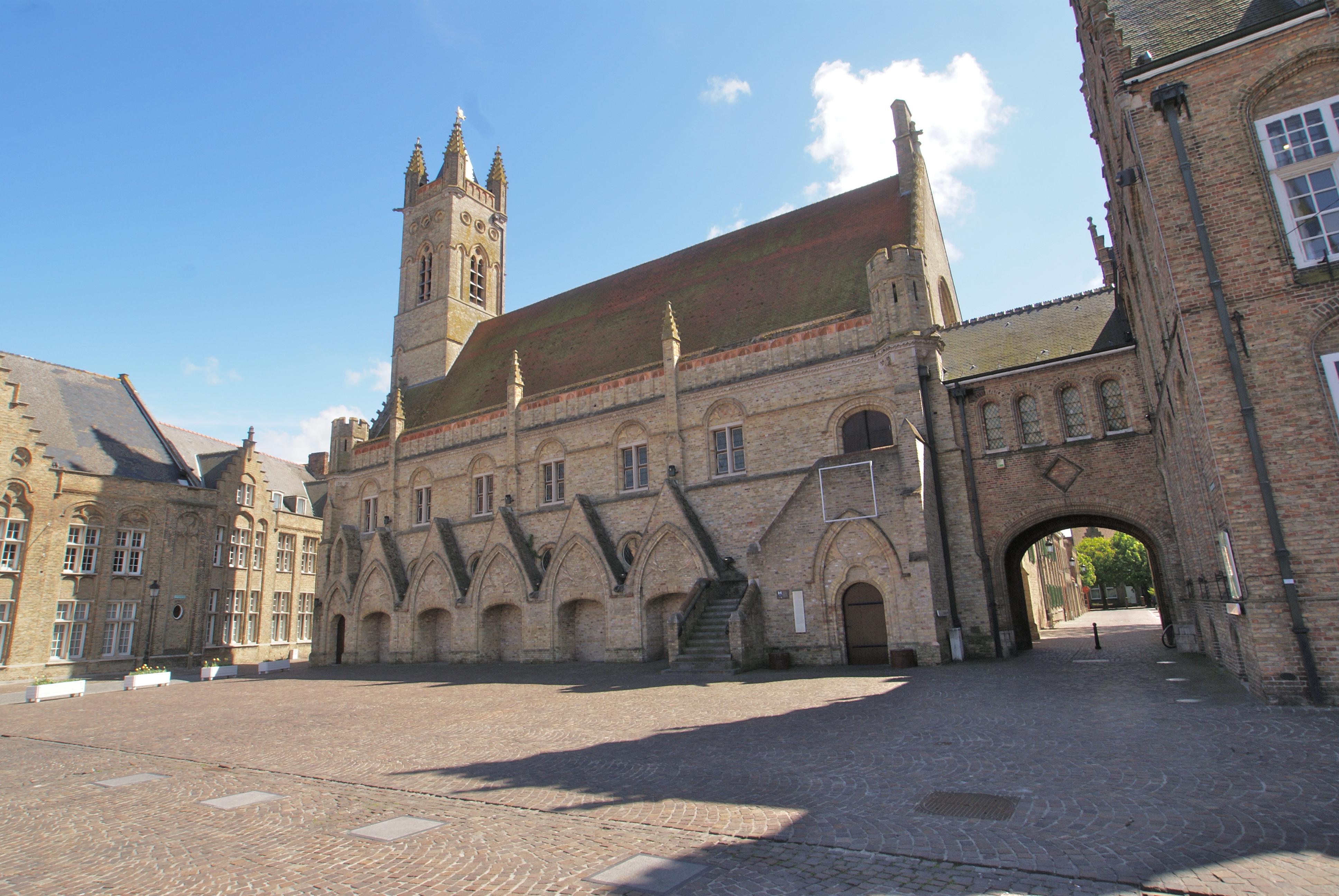 Nieuwpoort (Belgium): Belfry and Wheat Market Hall